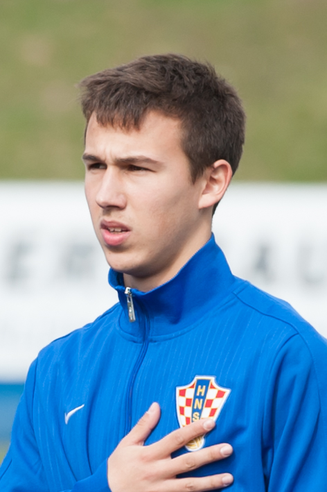 European Under-19 Championships 2015 Elite Round, Austria vs. Croatia, 28/03/2015 Wiener Neustadt, Lower Austria